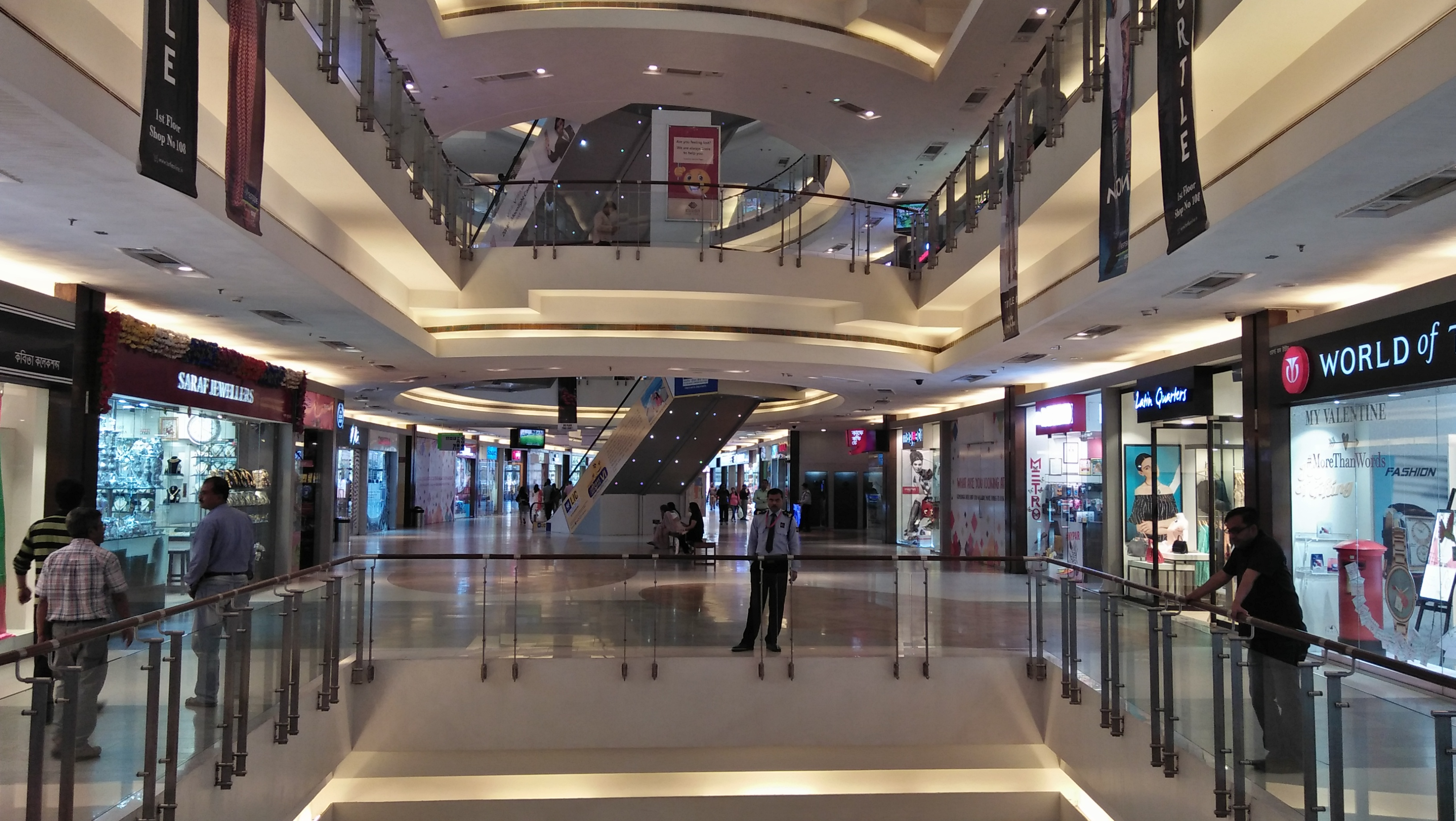 Photographed in Kolkata.